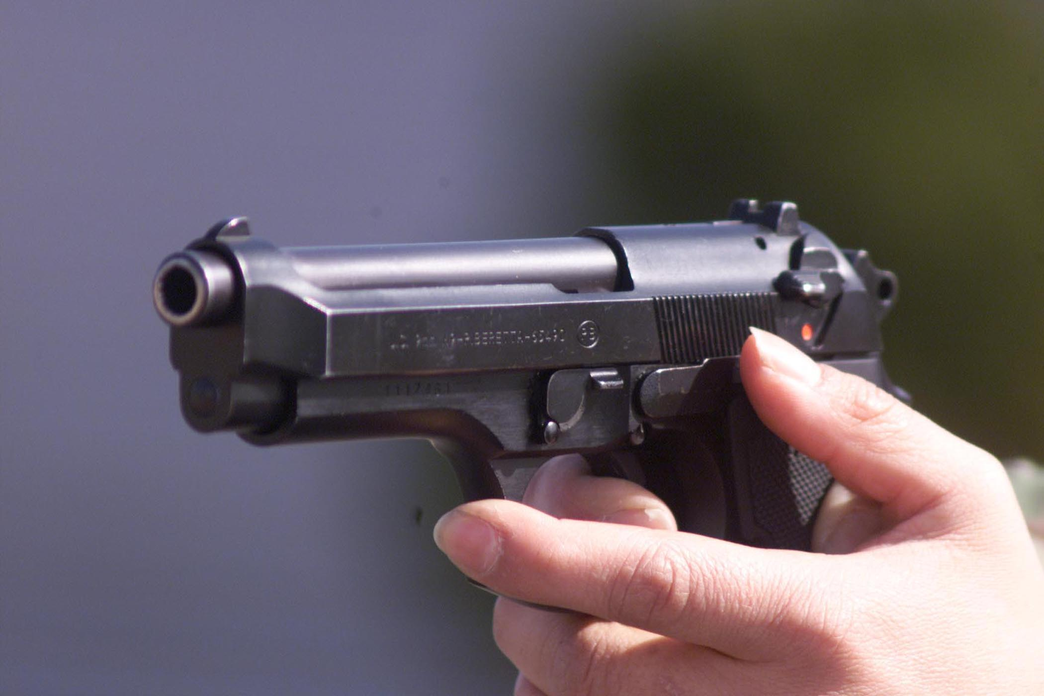 One of the weapons some Marines annually qualify with on the Station pistol range is the M-9 9 mm service pistol.